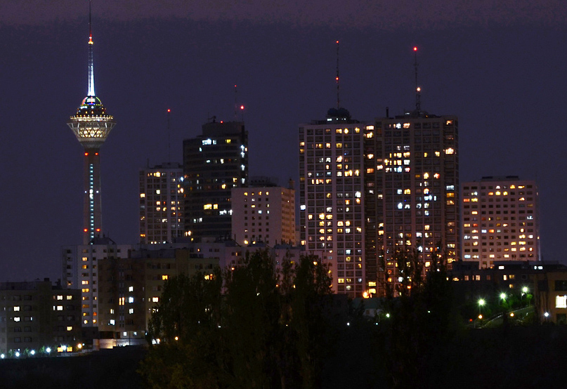 A view of the Milad Tower and some residential buildings in the West Town of Tehran.